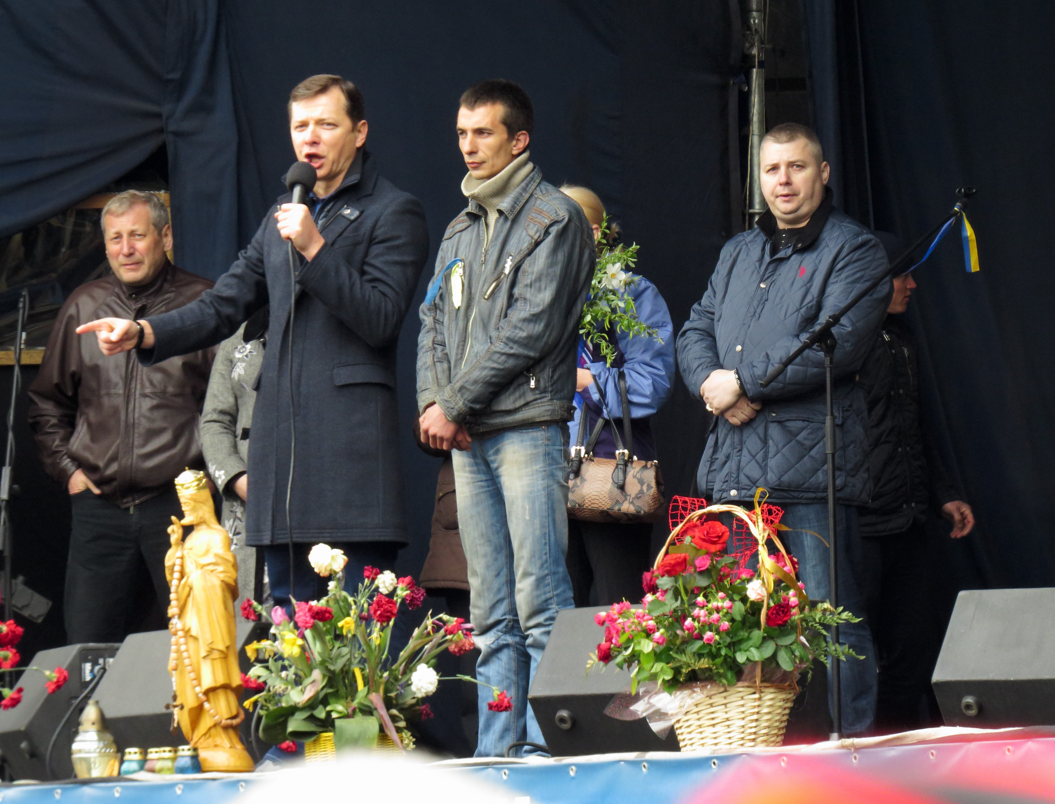 Kiev, meeting at the Maidan main stage initialized by Right Sector activists